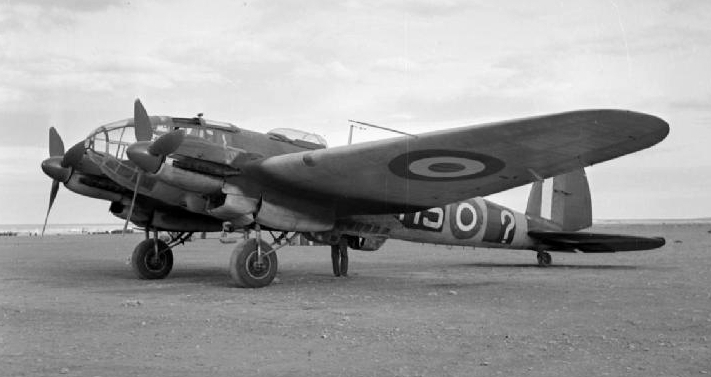 A Heinkel He 111H bomber, which was abandoned by the Luftwaffe during the retreat after the Battle of El Alamein, on a landing ground in Libya after being "commandeered" by No. 260 Squadron RAF, who painted it with RAF roundels and the unit code letters "HS-?". The Squadron used it to fly supplies, beer and other necessities from Alexandria to their bases in Libya.